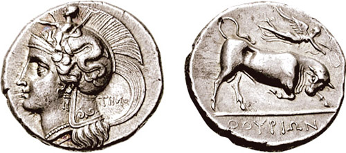 Lucania, Thourioi. Circa 350-300 BC. AR Stater (7.98 g, 6h). Helmeted head of Athena left, wearing Attic helmet decorated with Skylla holding a rudder, neck guard decorated with a palmette; TIMO behind ΘΟΥΡΙΩΝ bull butting right; above, Nike flying right, crowning bull.